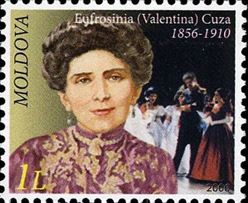 Stamp of Moldova ; Eufrosinia (Valentina) Cuza